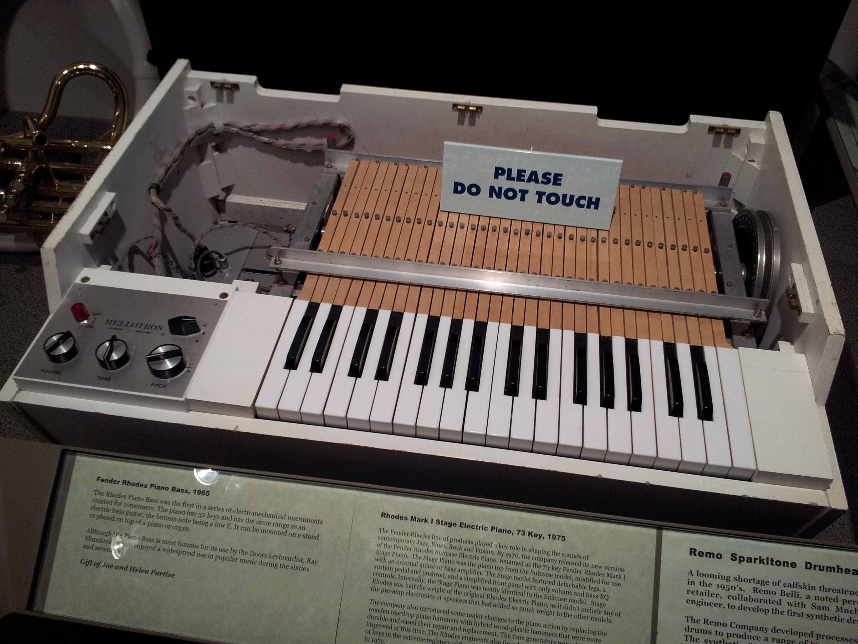 Mellotron, Museum of Making Music